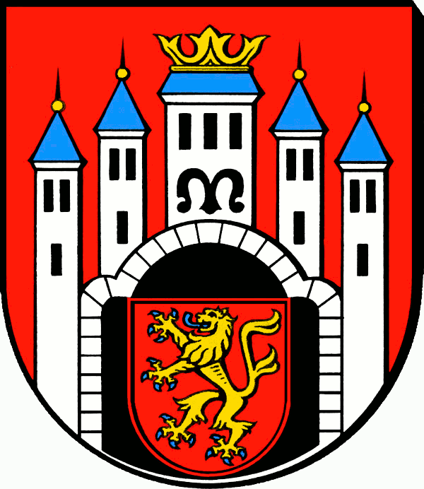 Coat of arms of the Town Hann. Münden first uploaded to de.wikipeda by User:Michael32710, 15:08, 19. Jun 2004 Beschreibung: Stadtwappen von Hann. Münden